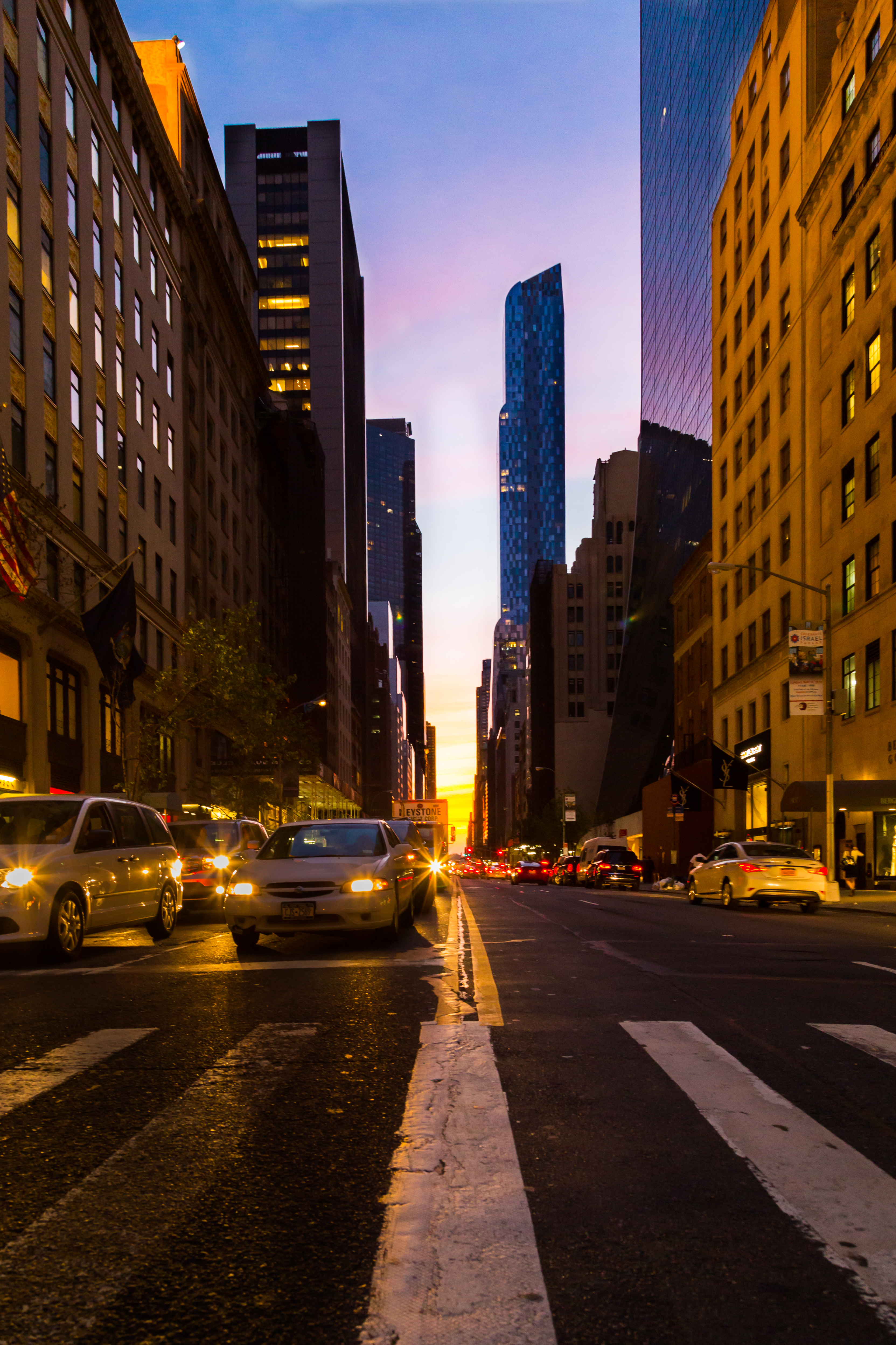 Manhattanhenge Sunset at 57th Street, late May 2015.